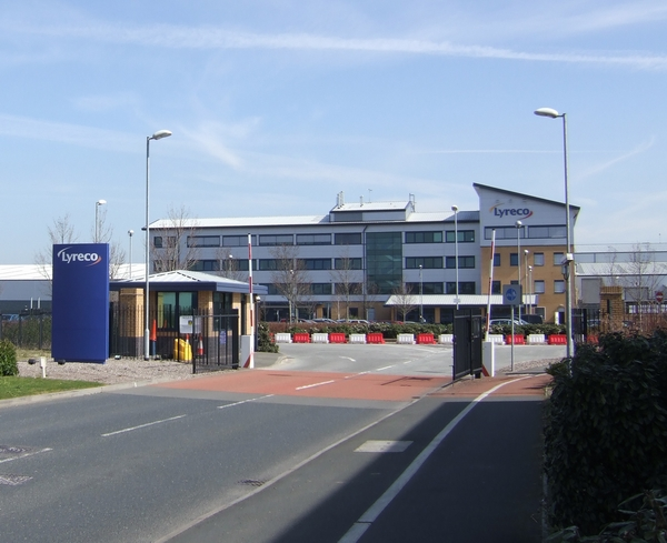 Lyreco Depot The Lyreco Depot is on the site of the former Grange Colliery. Grange Pit was the last mine in Telford, closing in 1894. Lyreco have recently moved from the Stafford Park area of Telford.